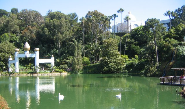 Lake Shrine Temple and the Golden Lotus Temple in L.A. I took this photo on June 7, 2005 with a Canon SD-110 digital camera, and cropped and re-sized it with GIMP. Category:Media related to Mohandas Karamchand Gandhi